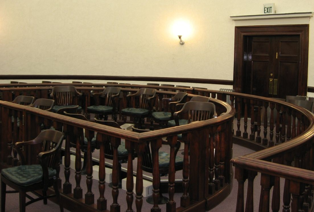 The jury box in the Pershing County, Nevada, Courthouse. Unusually, this jury box is in the middle of the room.